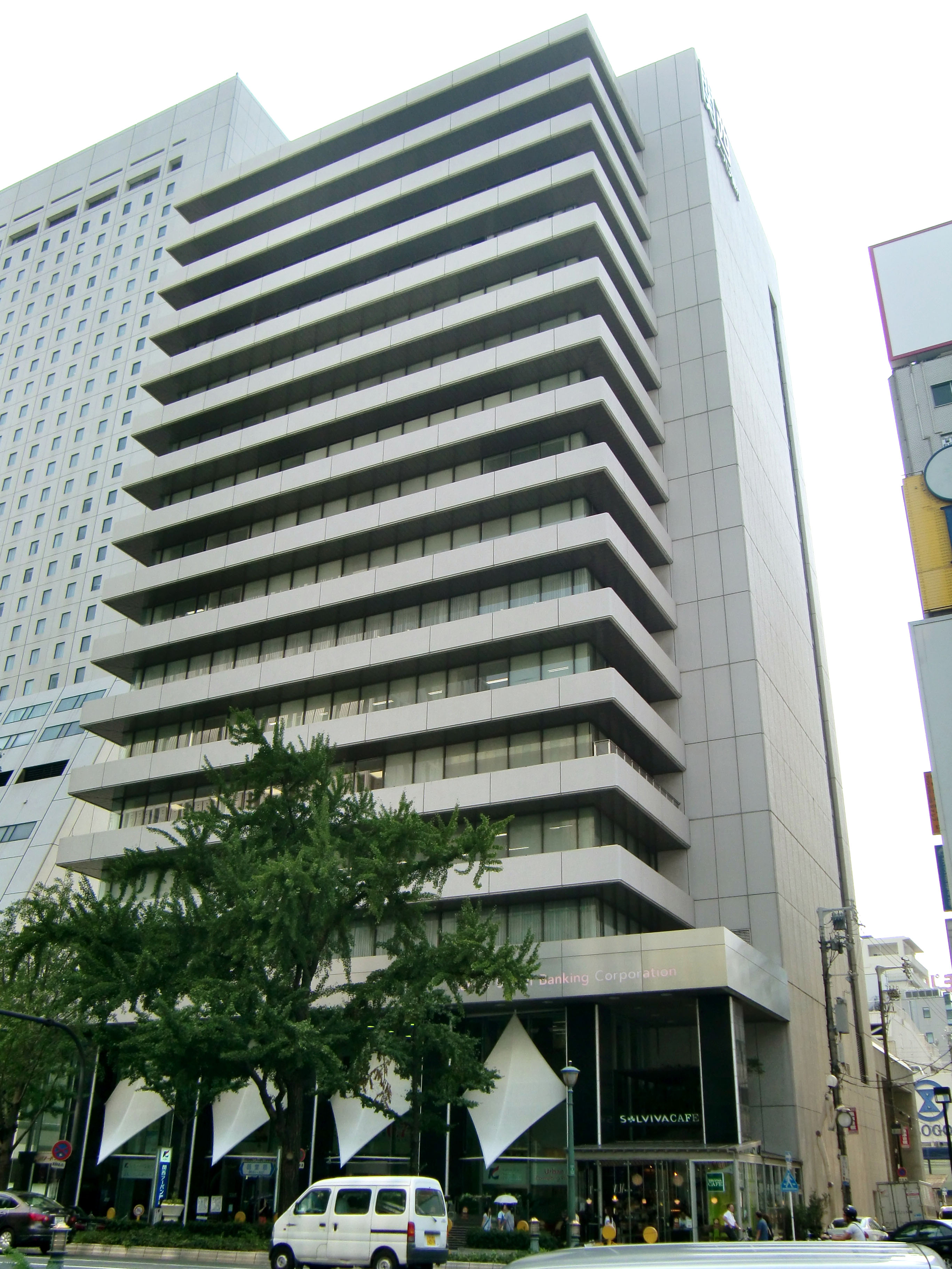 Kansai Urban Banking Corporation,1-2-4 Nishi-Shinsaibashi Chuo-ku Osaka-City Osaka Japan.